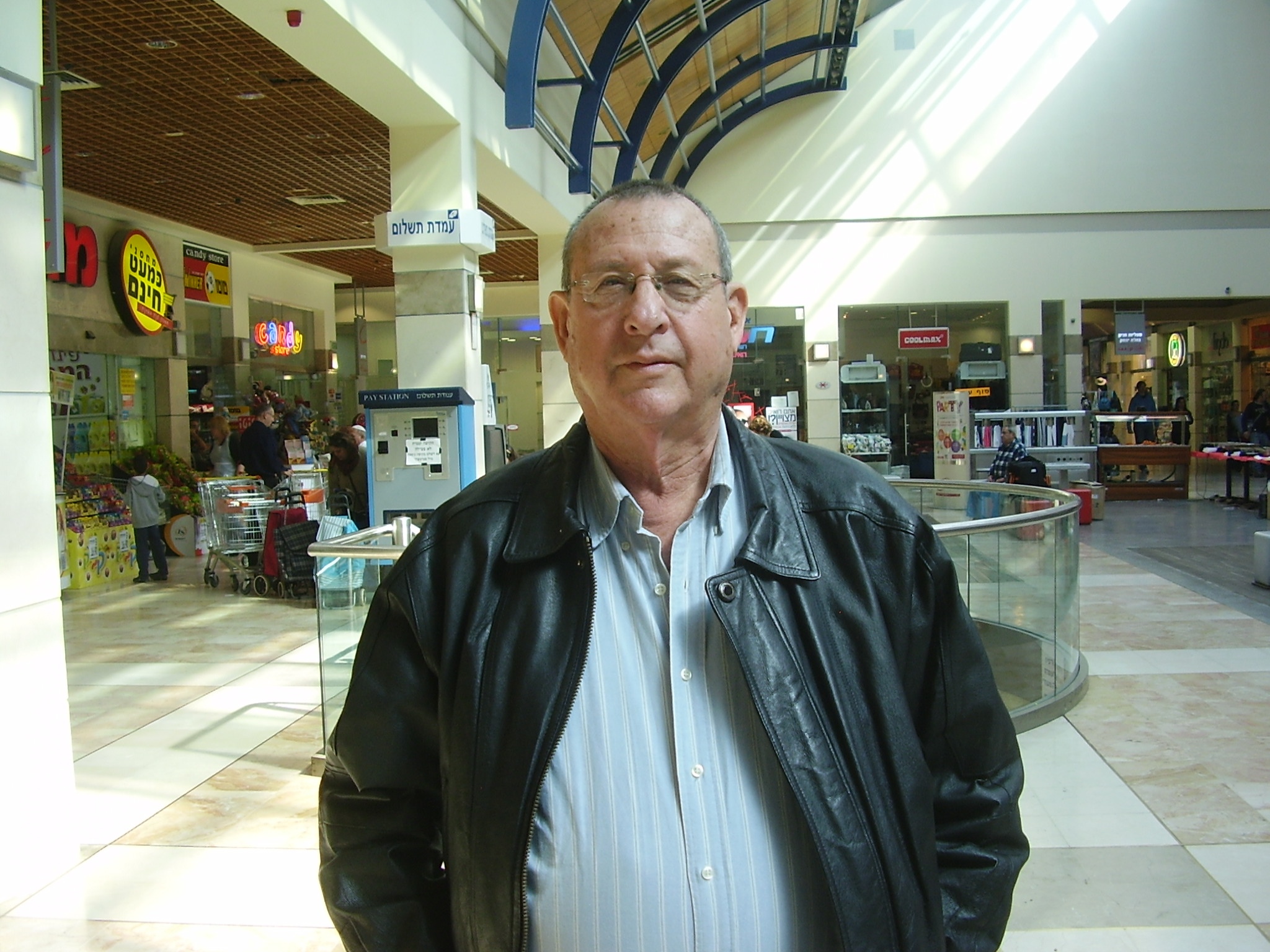 israeli musician, Ami Gilad